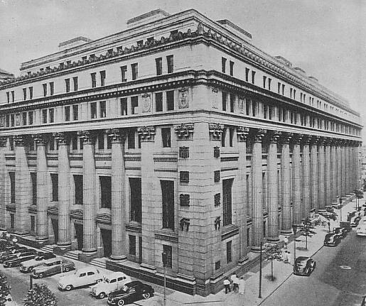 Teikoku Bank Head Office